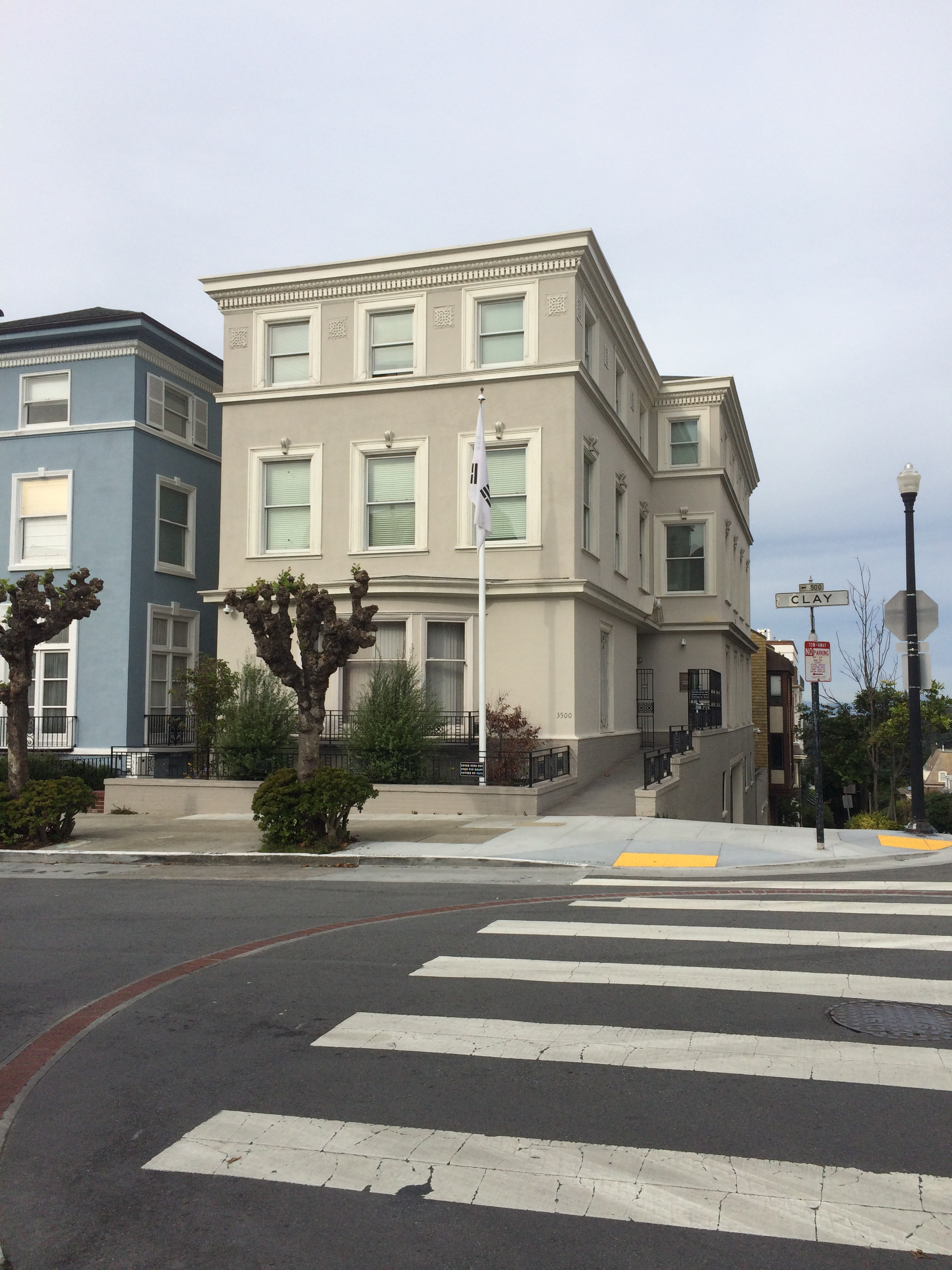 Consulate-General of South Korea in San Francisco, California